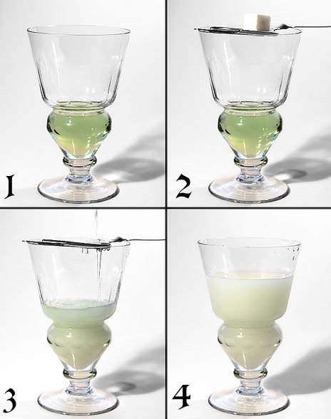 A sequence of four images showing the traditional way to prepare absinthe.